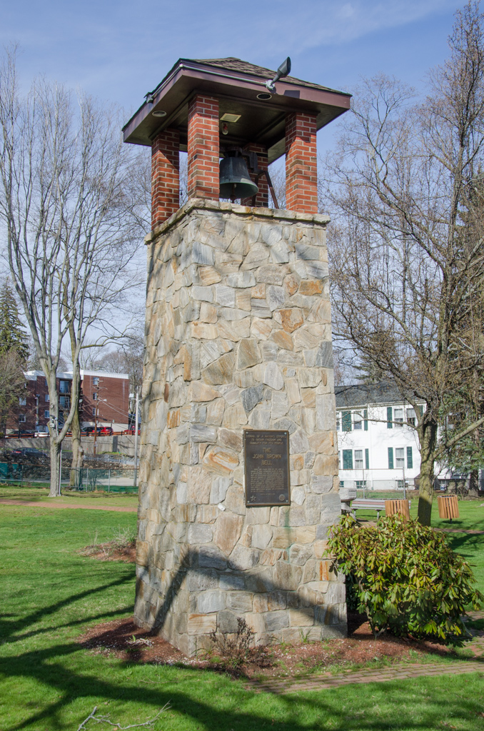 The John Brown Bell displayed on the town common in Marlborough, Massachusetts.